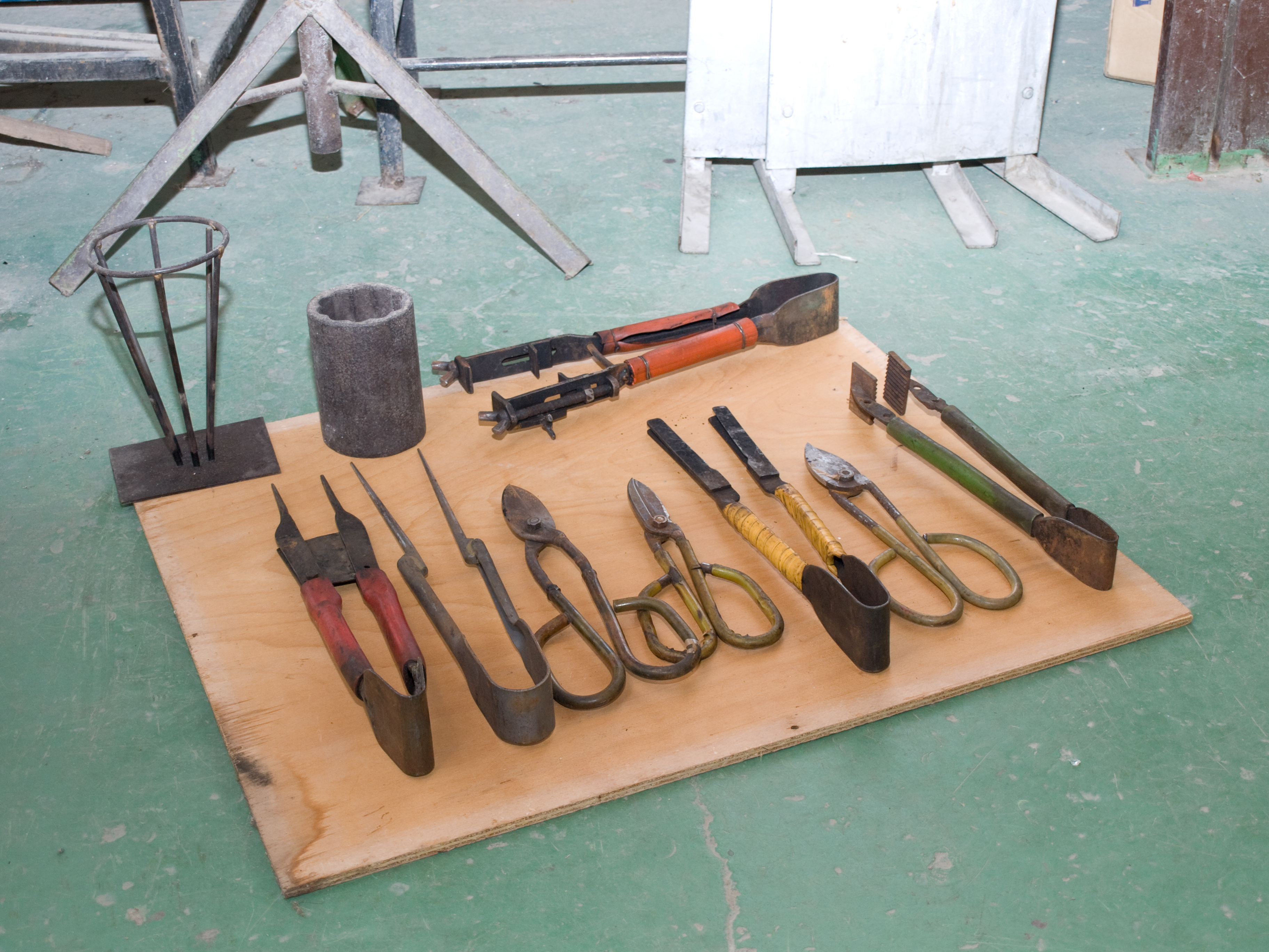 Nenačovice glasswork